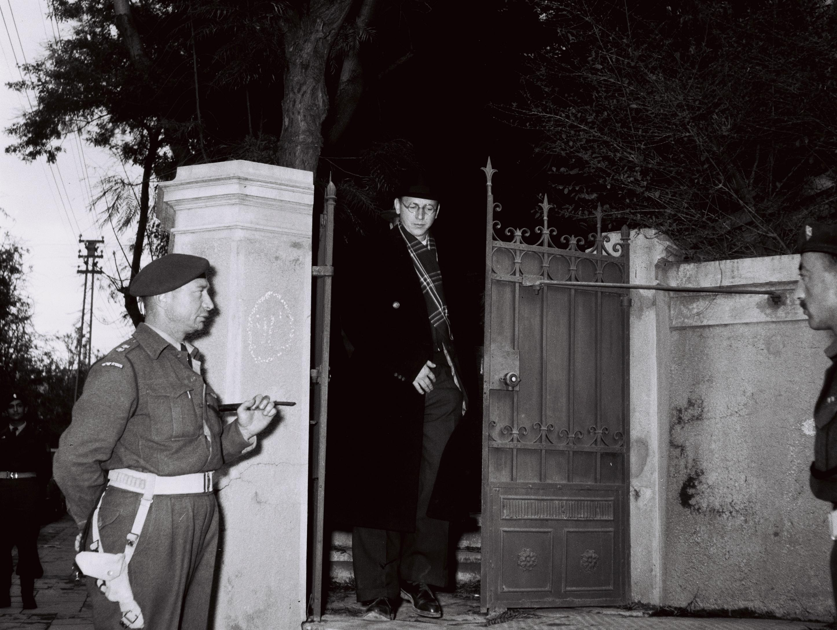 The Russian ambassador Pavel Yershov leaving the embassy building on Rothchild blvd. in Tel Aviv.